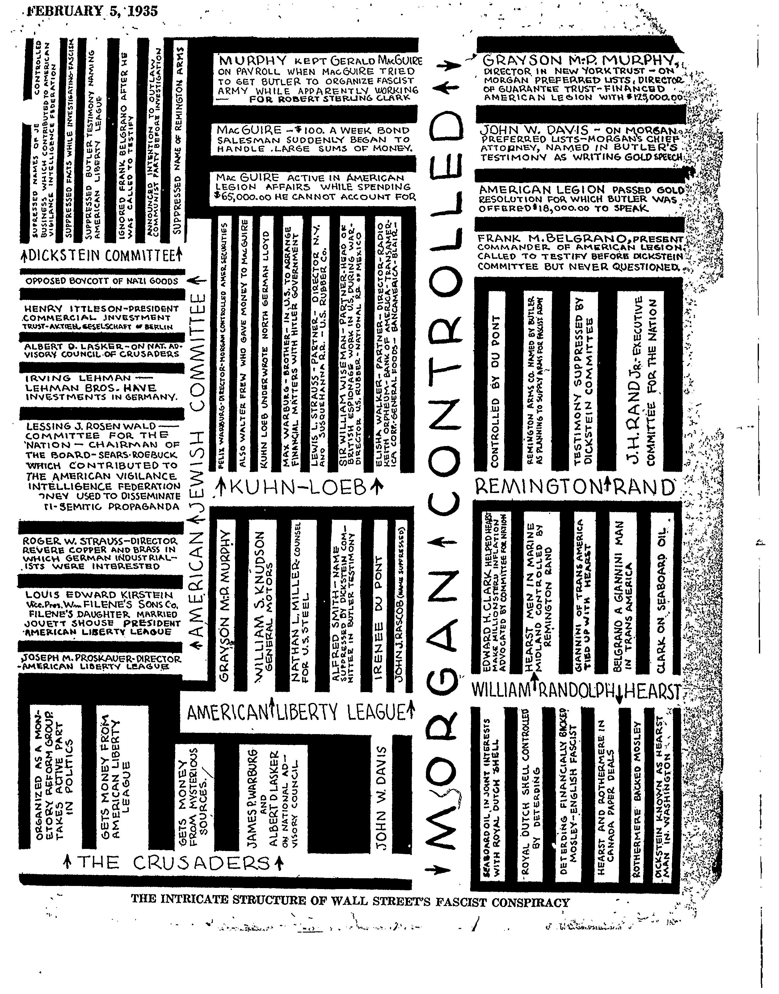 This image is of a scan of a picture in the issue of New Masses magazine. A defunct socialist magazine.